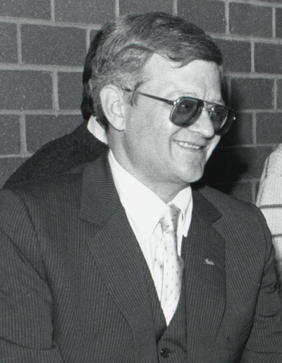 Tom Clancy at Burns Library, Boston College. Taken by Gary Wayne Gilbert.